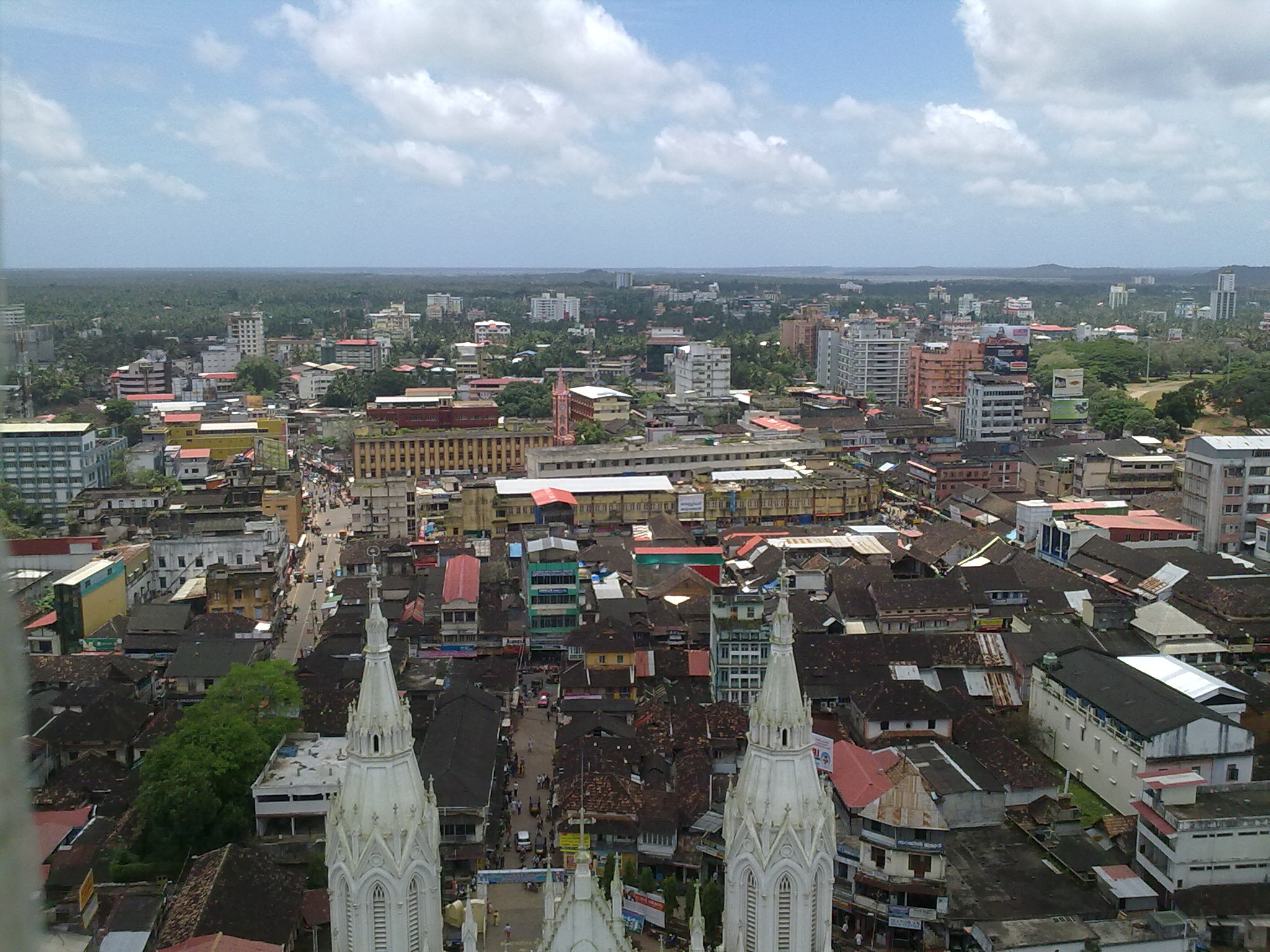 Thrissur city from the Bible Tower of Basilica of Our Lady of Dolours.